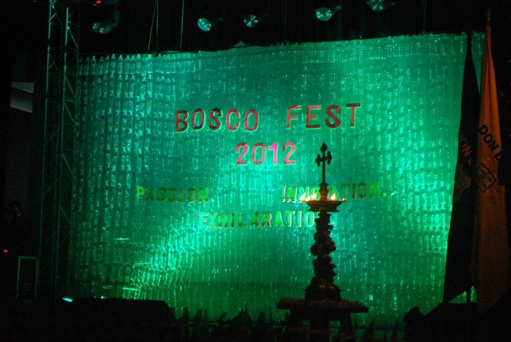 The stage with the Holy Lamp